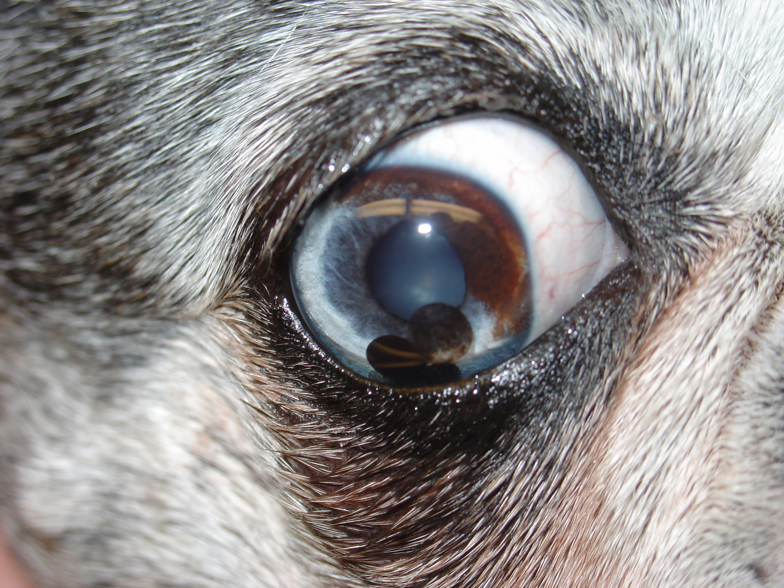 Multiple brown iris cysts seen against the blue iris of a Boston Terrier. The topmost object is clearly hollow, identifying it as a cyst.